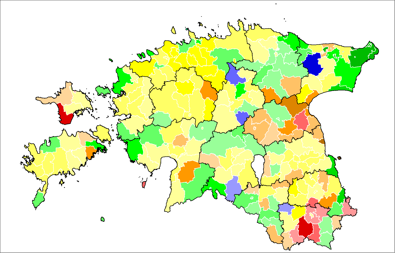 Estonian parliamentary election 2007 by municipality.